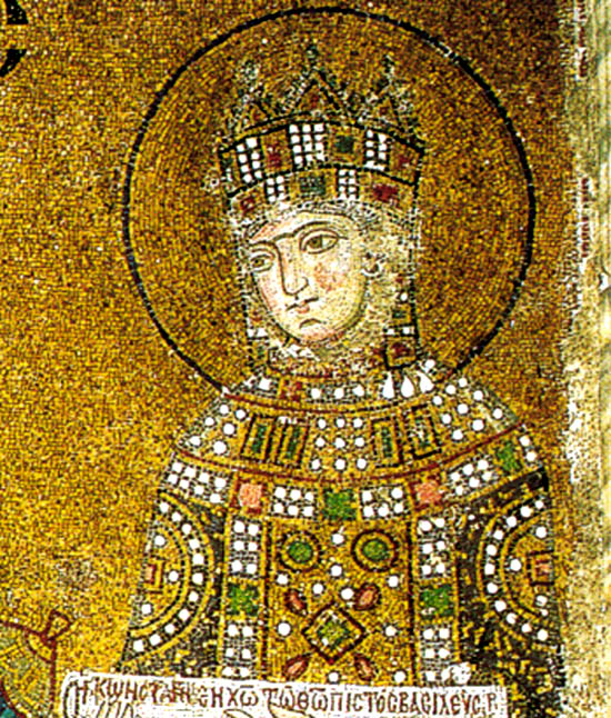 Picture of mosaic of empress Zoe in Hagia Sophia. Category:Byzantine mosaic